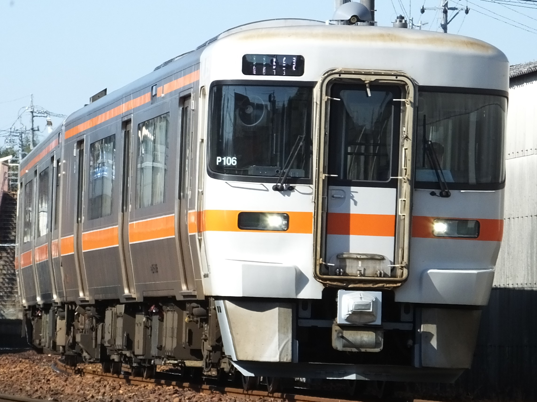 JR Central KiHa 25 DMU set P106 approaching Koizumi Station on the Taita Line